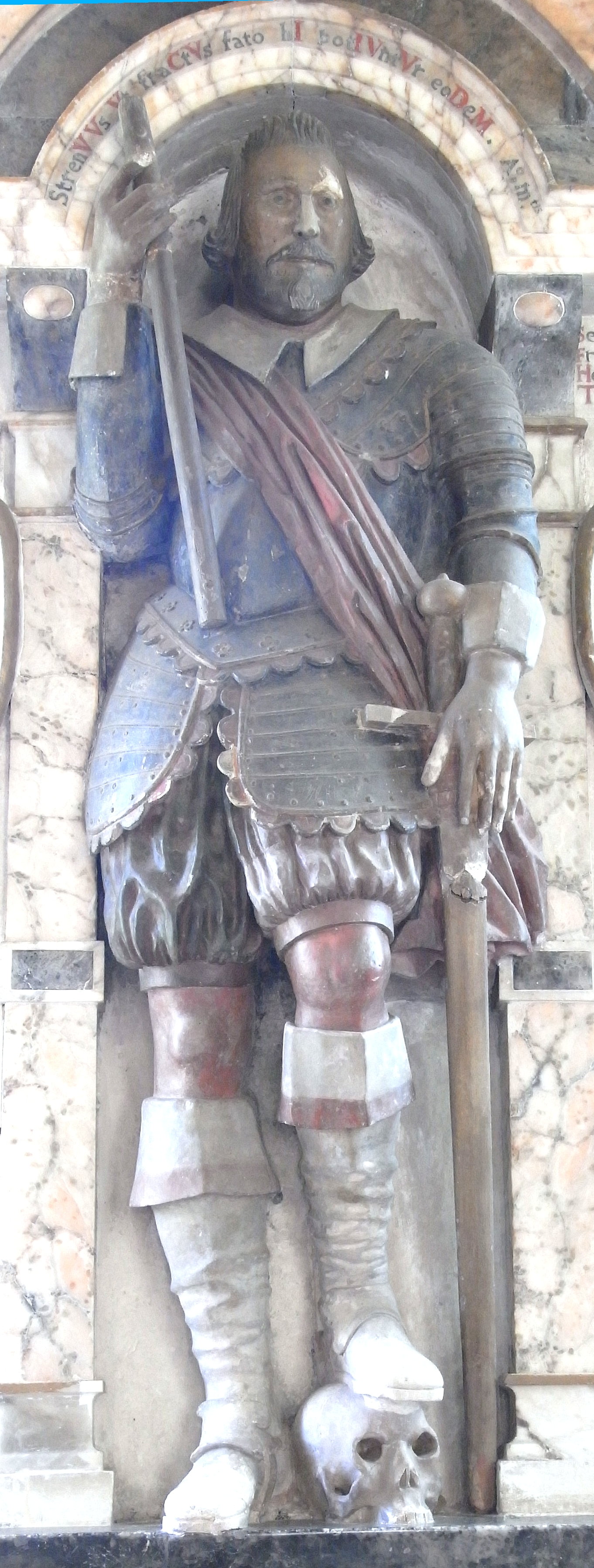 Effigy of John Northcote (1570-1632) of Hayne, Newton St Cyres, Devon. Newton St Cyres Church, NE corner of Northcote Chapel, east end of north aisle. Compare posture with File:Memorial to John Coke of Thorne Esq in St Mary's Church, Ottery St Mary.JPG